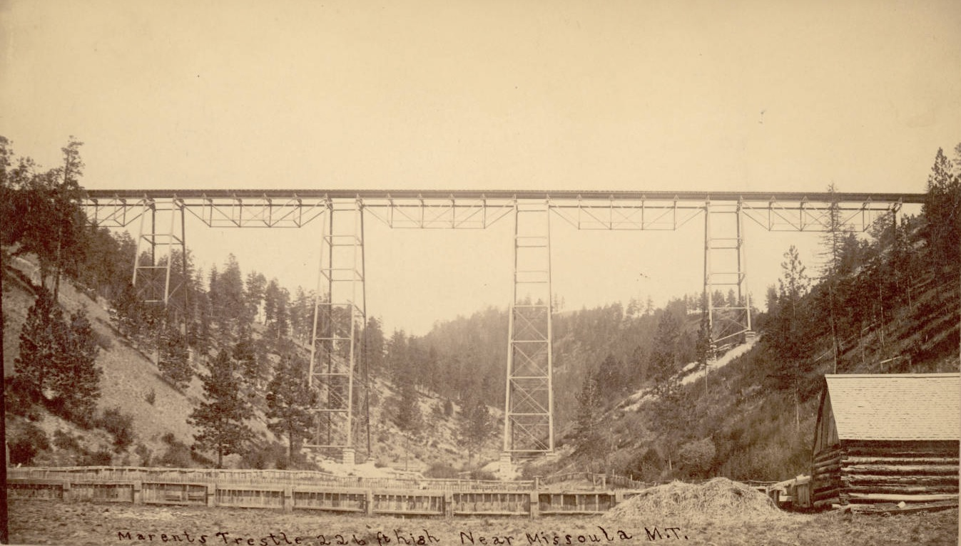 Maruet [sic] Gulch trestle, 226 feet high Northern Pacific Railroad Company track on the wooden Marent Trestle in Missoula County, Montana. Frame and log buildings are in Marent Gulch. Information inked on verso reads: "Built 1882 + 1883, N.P.R.R. west of Missoula, Mont., replaced by iron bridge in 1884-1885"; and "F.D. Low was on the first locomotive to cross the bridge previous to construction. Helped many time [sic] to measure distance across gulch" penciled on verso. Shows dense trees on steep slopes.; Photographer's stamp on verso.; Title labeled on original negative and reproduced in photographic print.; R7110052717